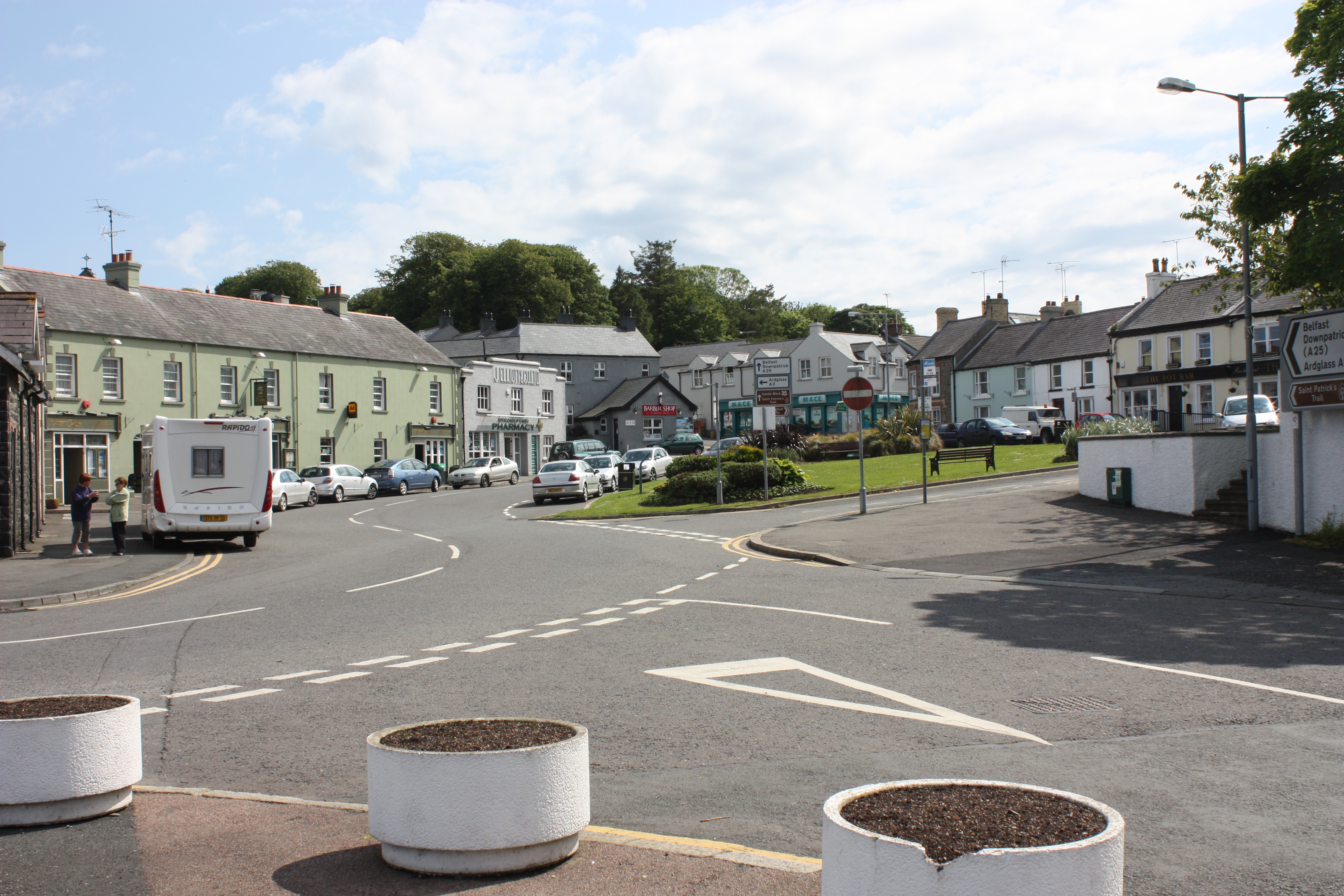 The Square, Strangford, County Down, Northern Ireland, June 2011